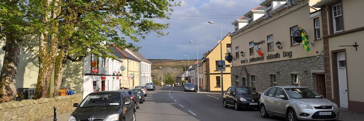 This picture shows the main street in Carrick. The closest building on the right that you can see is Ostán Sliabh Liag or The Sliabh Liag Hotel which is one of three of Carricks local pubs, if you look to the left and see the white building which is Dohertys shop one of two of our local convenience stores, and the next building to the left a bit further down is Evelyn's bar.